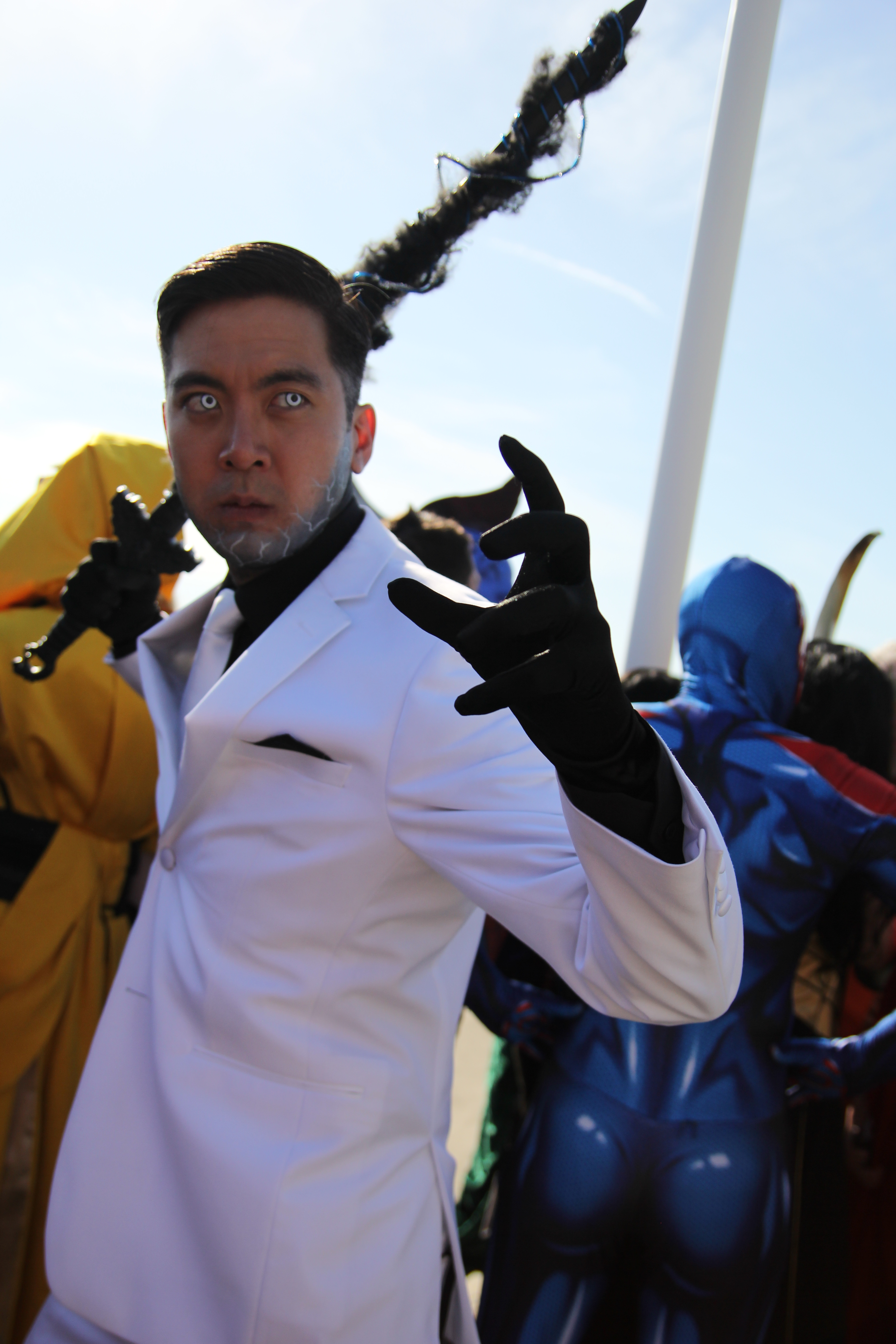 Cosplayer of Mister Negative